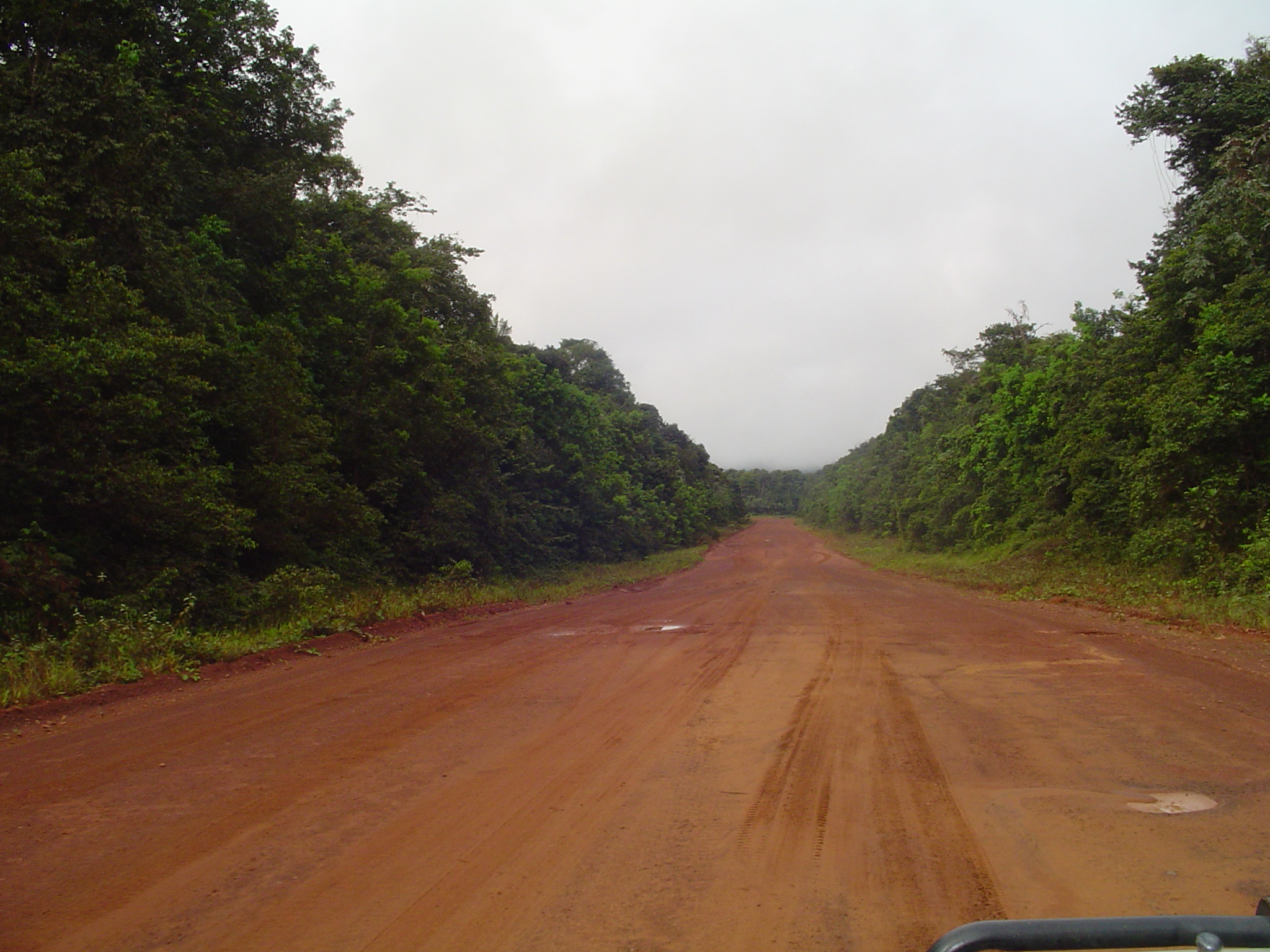 Mabura Road south of Linden, Guyana Mabura_Road_after_leaving_Linden.jpg